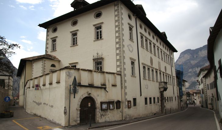 Palace of the family Gelmini von Kreutzhof in Salurn, Joseph-Noldin-Straße, South Tyrol, Italy